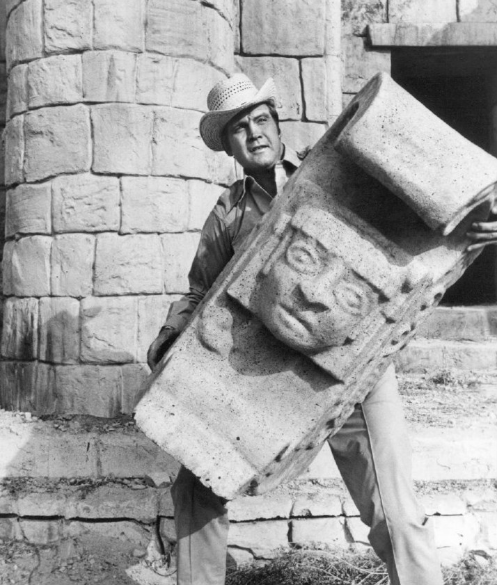 Publicity photo of Lee Majors from the televison program The Six Million Dollar Man.